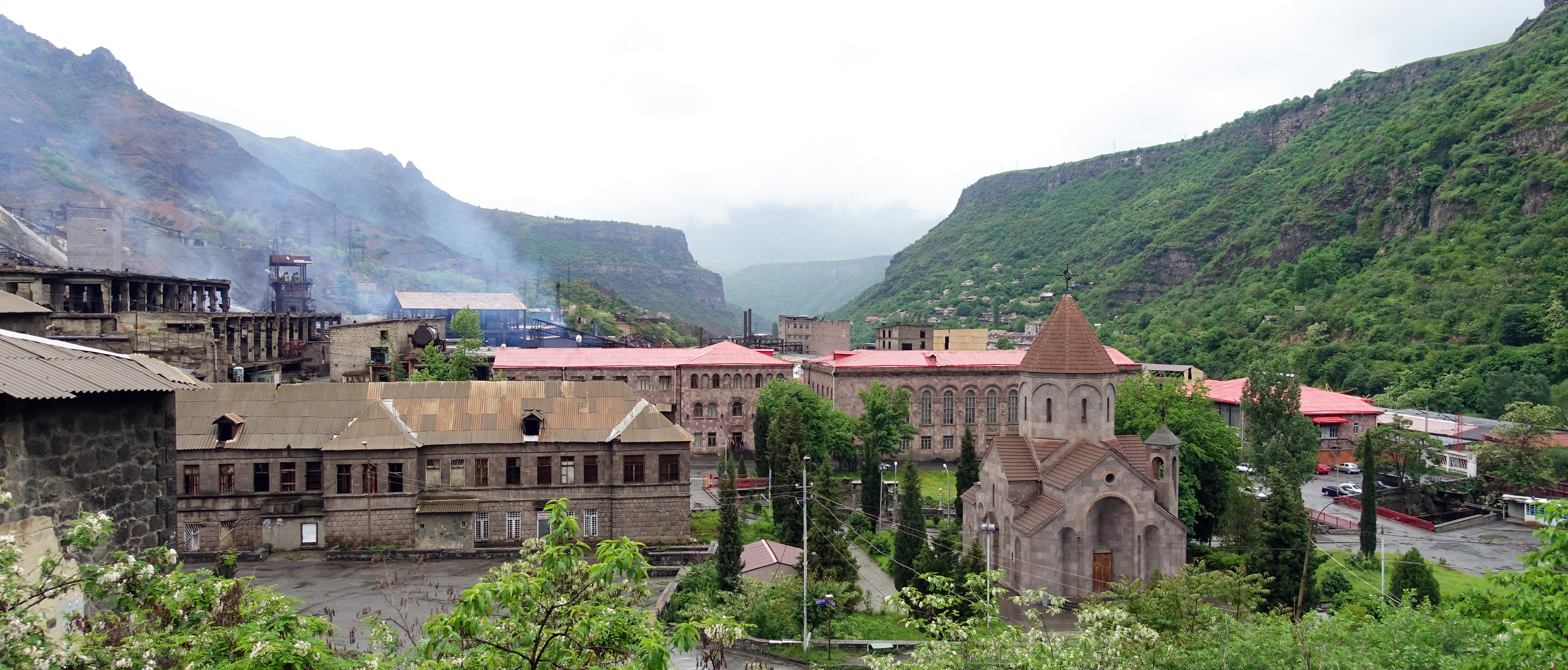 Alaverdi, Armenia.